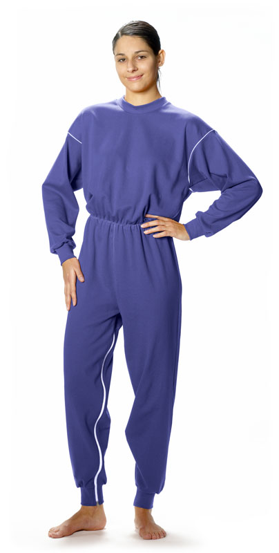 Locking clothing, with the zipper on the inseam. Such clothing is often used by the elderly or those with special needs.